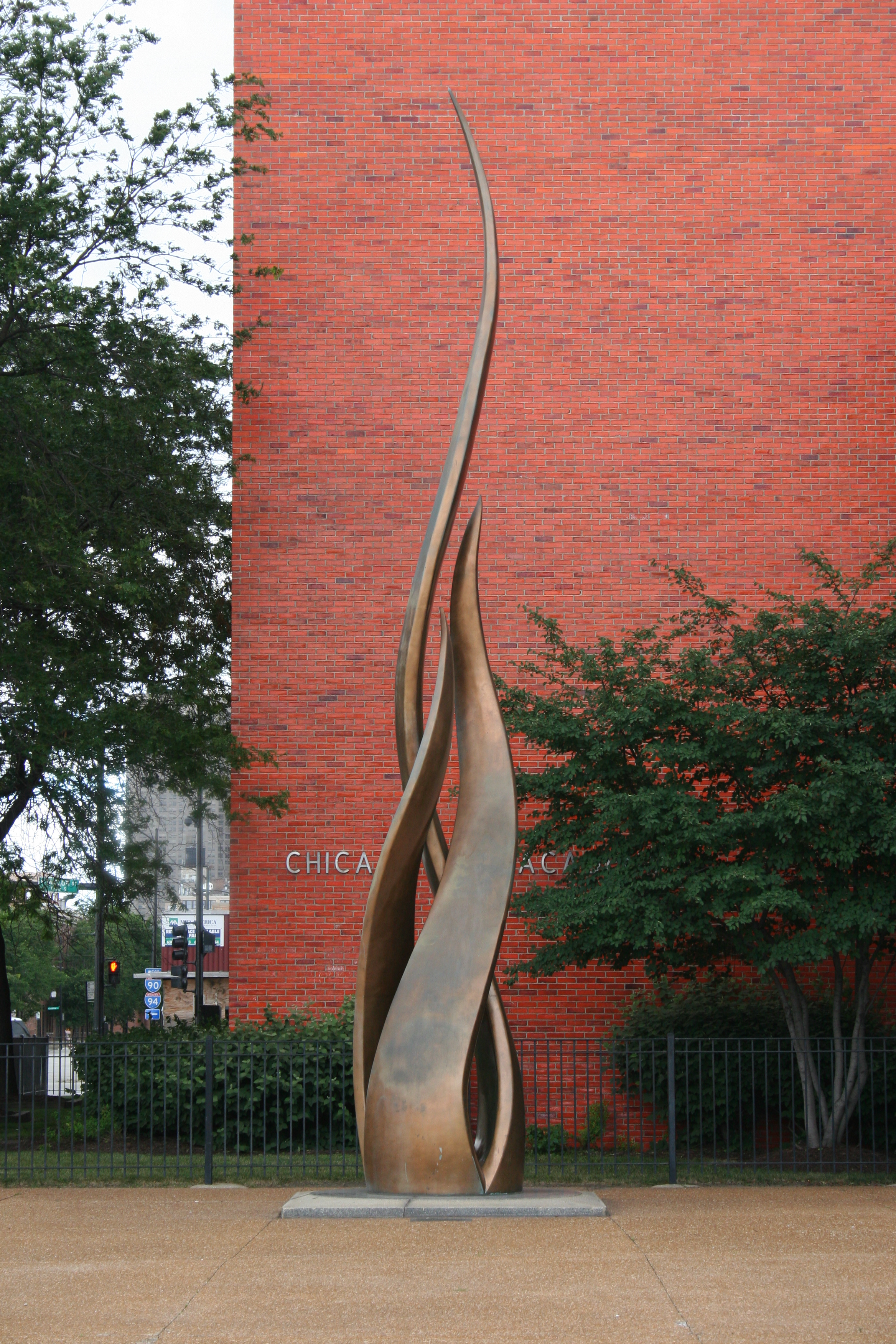 Site of the Origin of the Chicago Fire in South Loop, Chicago, IL